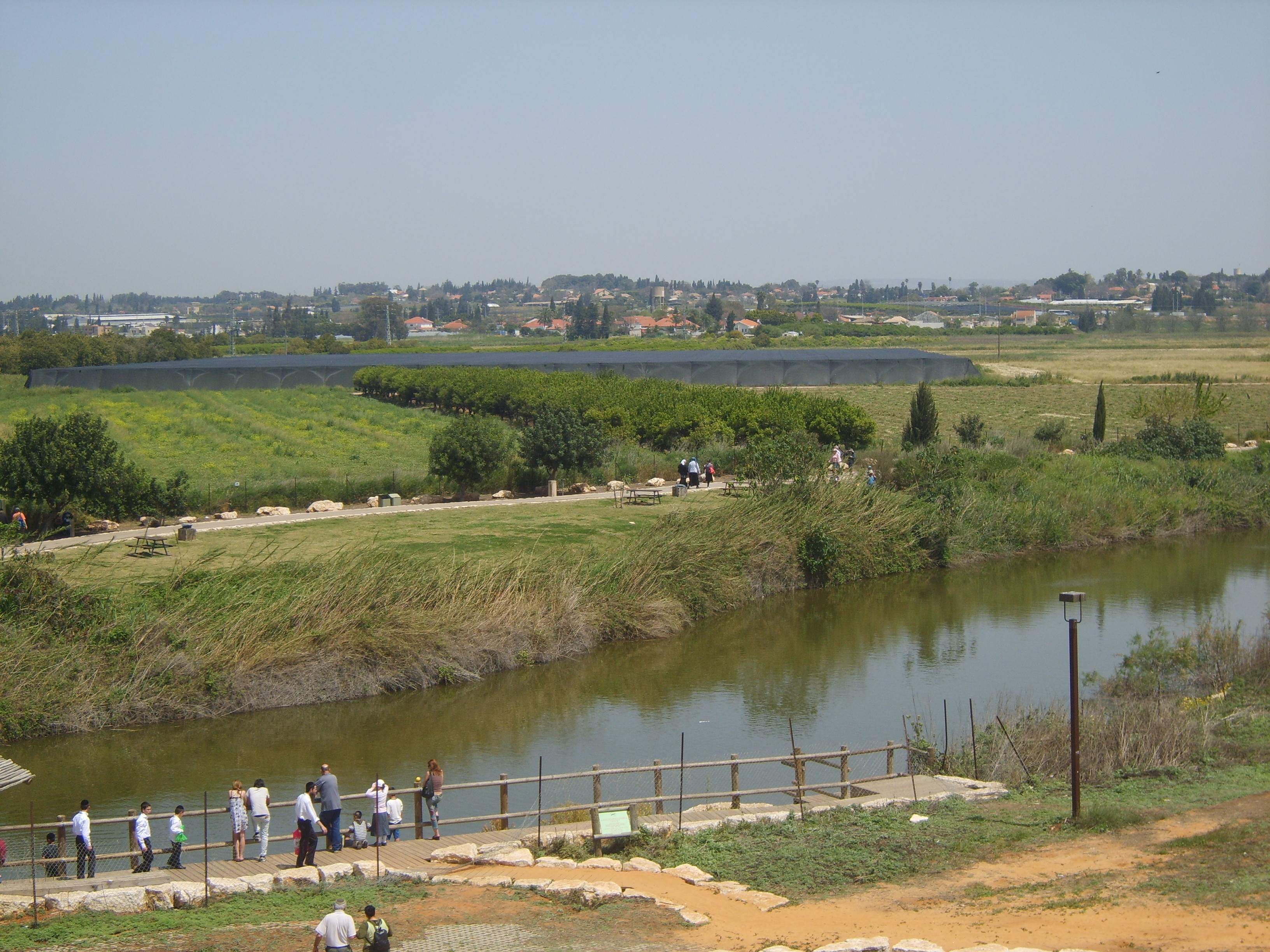 A view of Alexsander stream and the area to the north-east